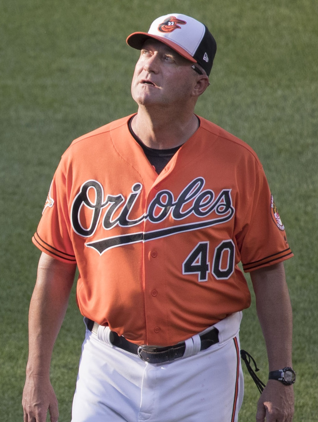 Cubs at Orioles 7/15/17